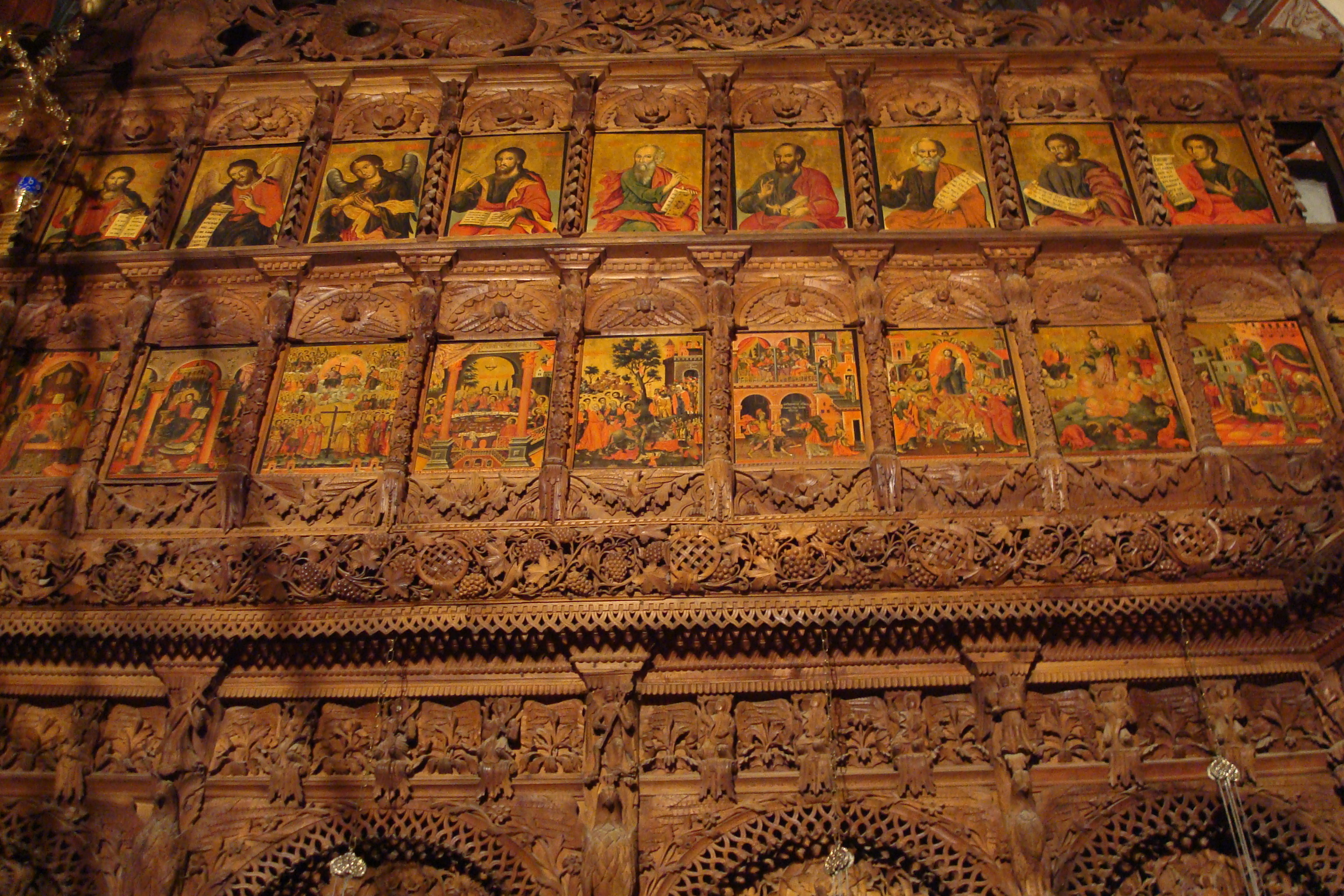 Monastery "Sveti Jovan Bigorski", Macedonia.